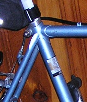 This is a photo of the seat lug from my steel touring bicycle. The frame tubing sticker, visible below the lug, indicates that the frame is made of "Ishiwata Feather Si35 Triple-Butted" steel tubing. More information and larger photos of this bike are at